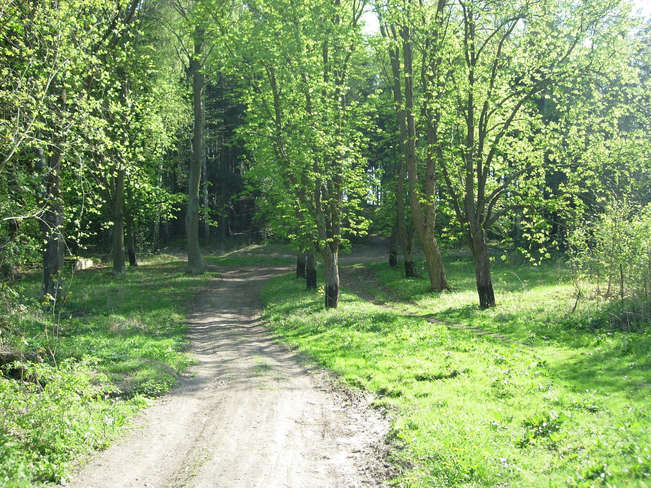 Countryside in Raj u Jihlavy, Czech Republic